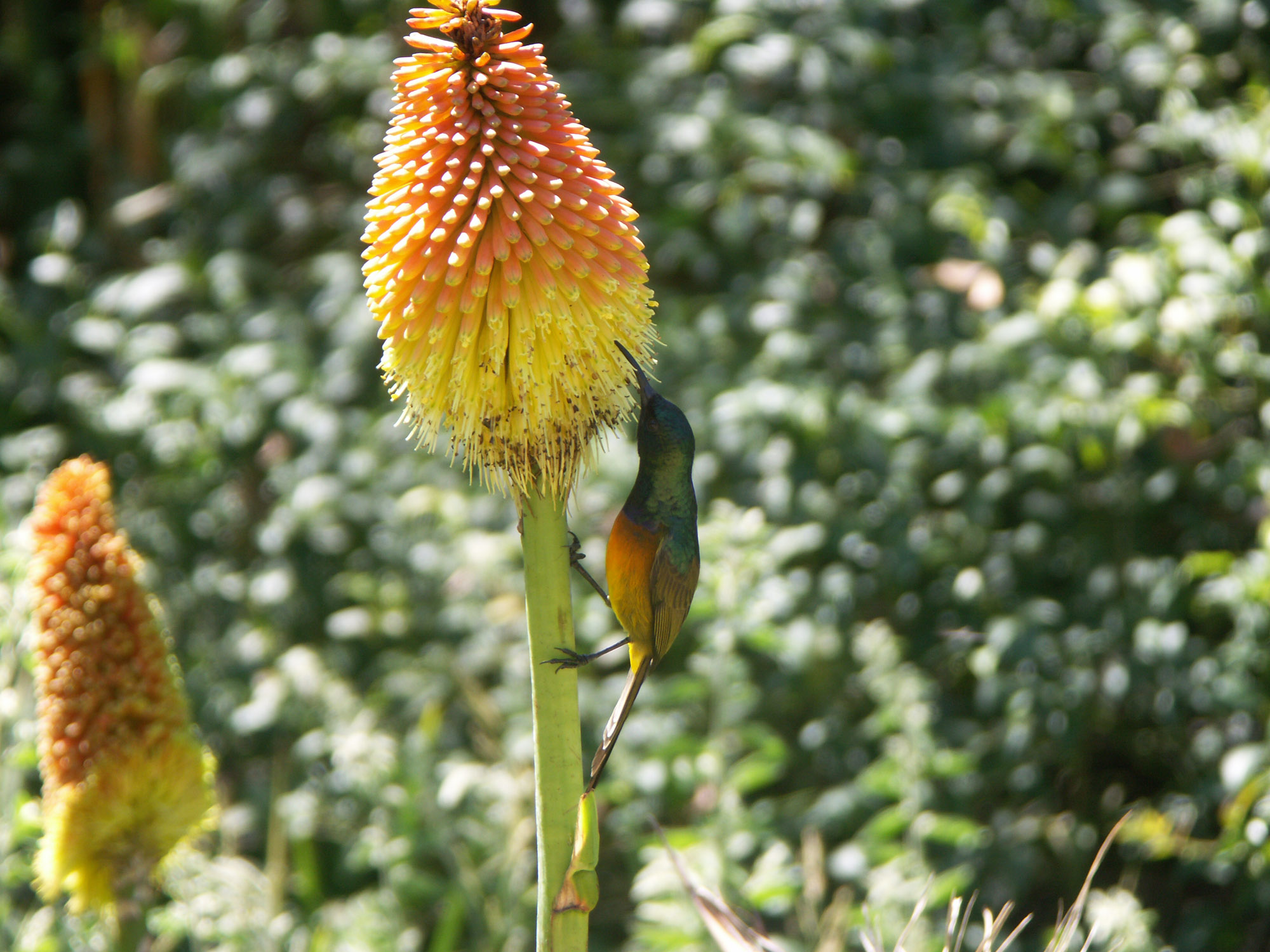 Orange-breasted Sunbird (Anthobaphes violacea) feeding on a Red Hot Poker (Kniphofia uvaria)- Kirstenbosch Botanical Gardens - South Africa